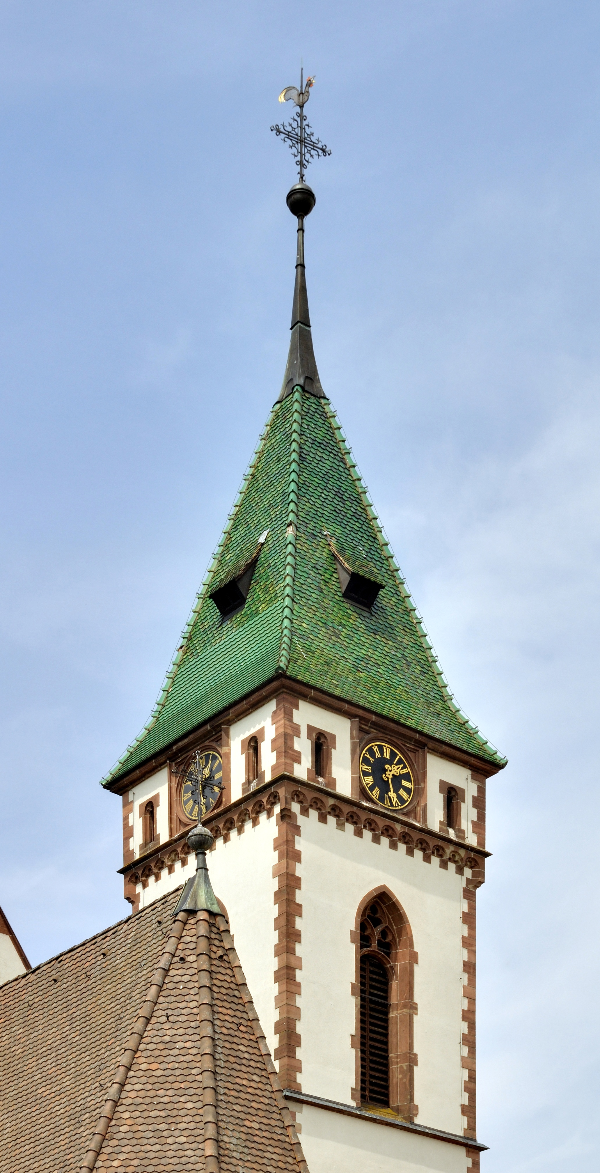 Hausen im Wiesental: catholic church, bell tower